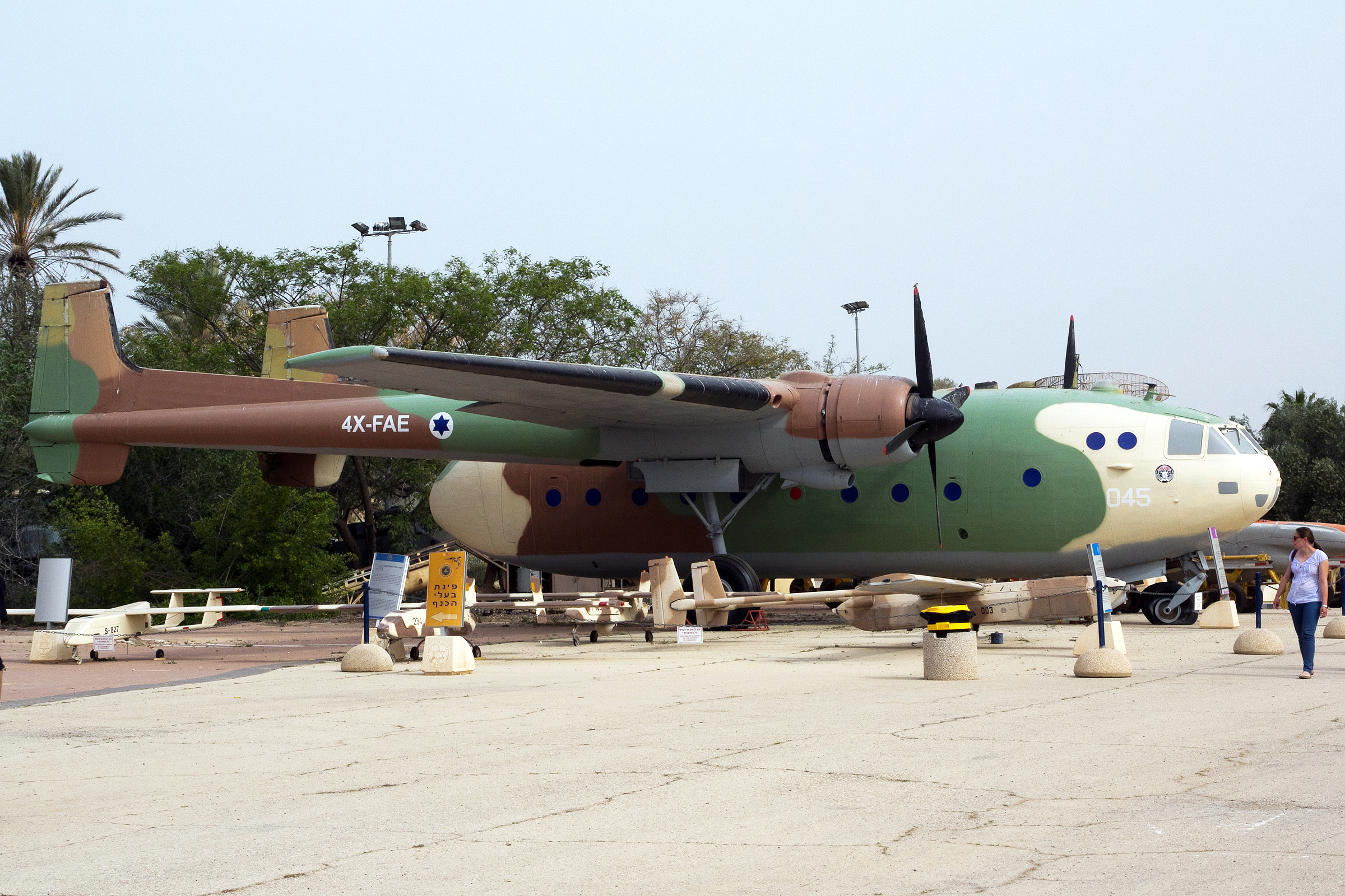 Nord Noratlas at the Israeli Air Force Museum in Hatzerim